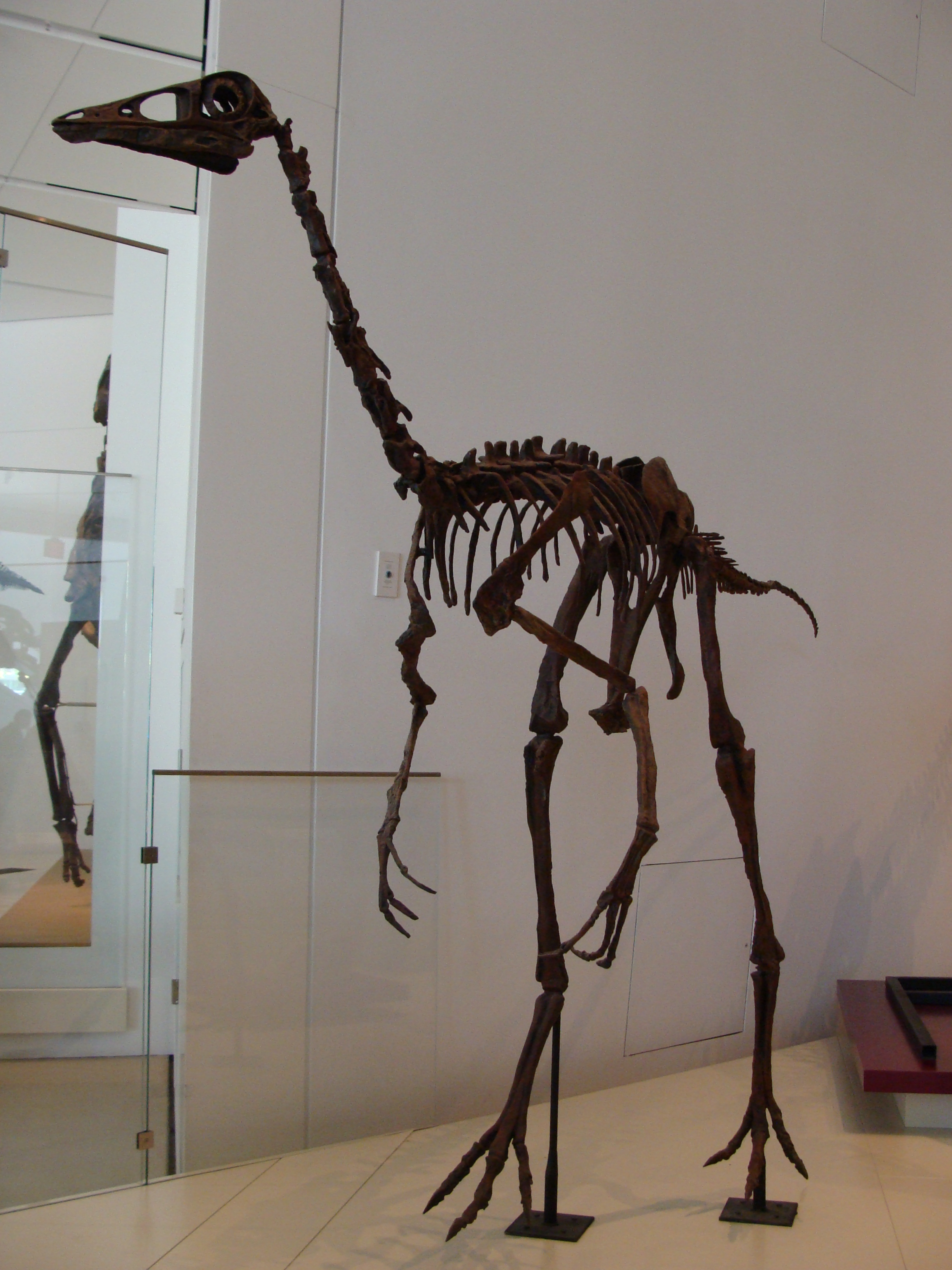 Cast skeleton of an Ornithomimus edmontonicus (ROM 851) on display at the Royal Ontario Museum.